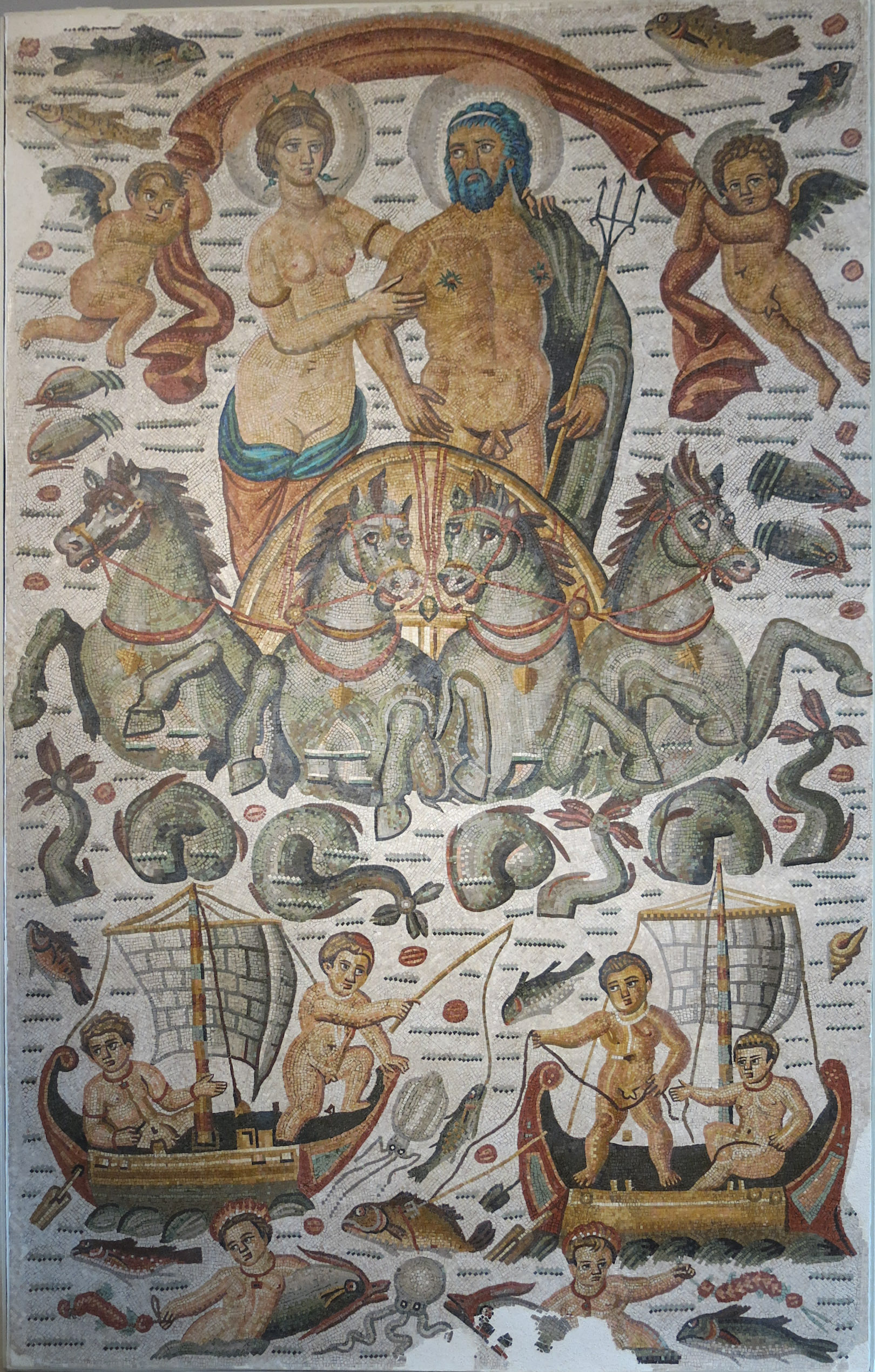 Ground mosaic with the triumph of Neptune and his wife Amphitrite. Marble, limestone and glass paste. 320-325 after J.-C. Ancient Cirta, today Constantine, Algeria. Mission Adolphe Delamarre, 1845